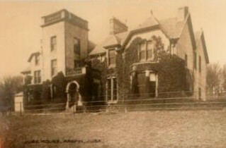 Jura House, Isle of Jura, Scotland